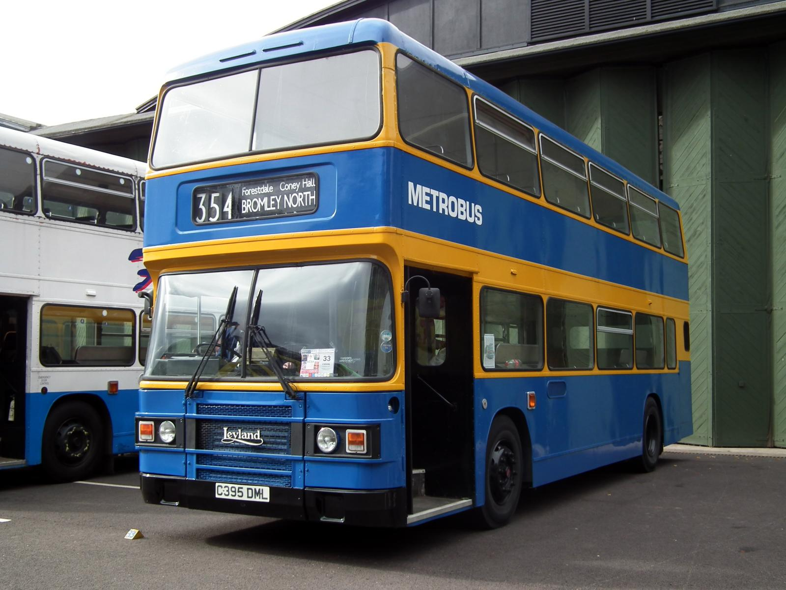 Metrobus 395 (C395 DML), a Leyland Olympian/Eastern Coach Works, seen at Showbus 2012.